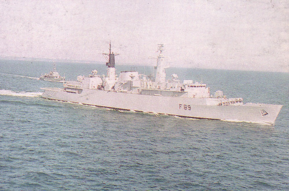 HMS Battleaxe (F89) and ORP Tukan.